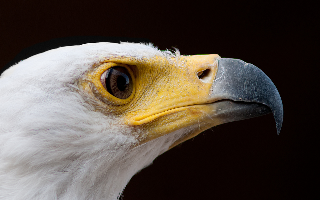 An African Fish Eagle at Château de Kintzheim, Alsace, France.